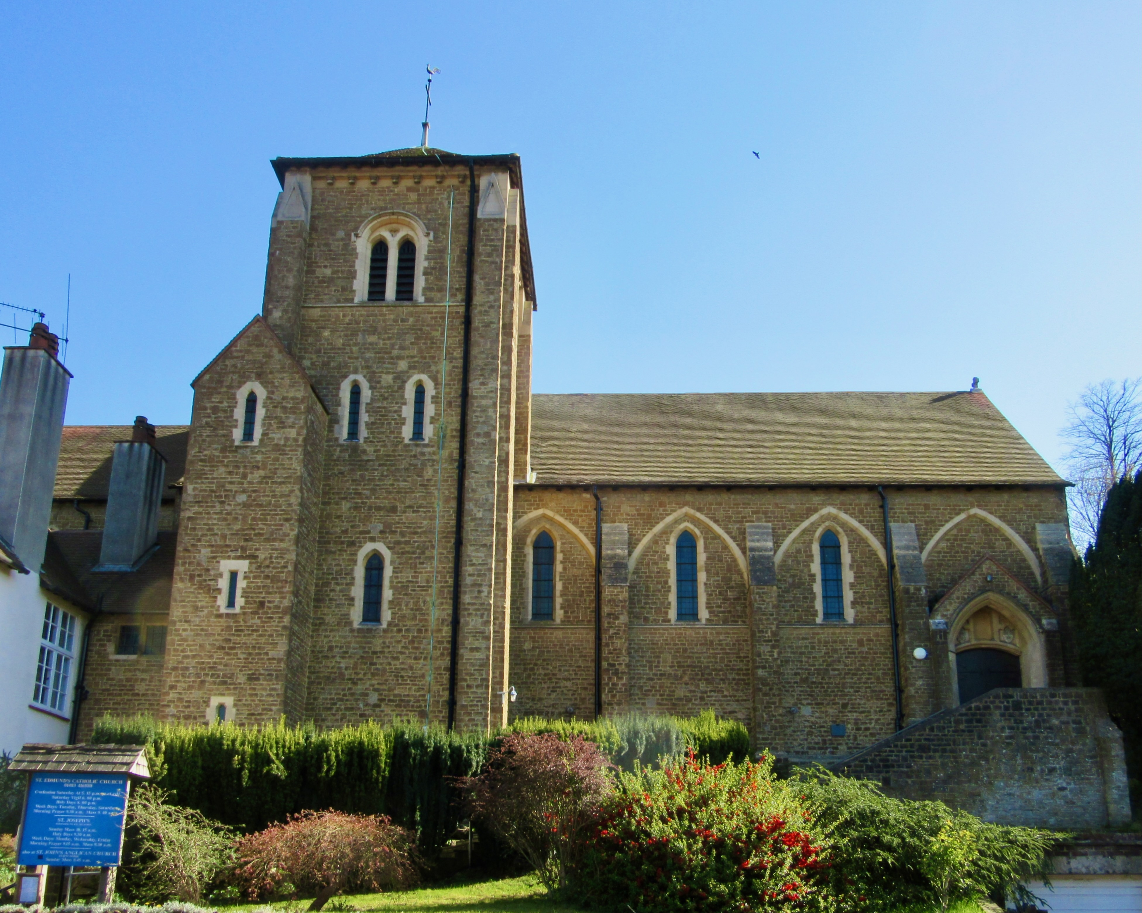 St Edmund King and Martyr's Church, Croft Road, Godalming, Borough of Waverley, Surrey, England. The Roman Catholic parish church of Godalming.